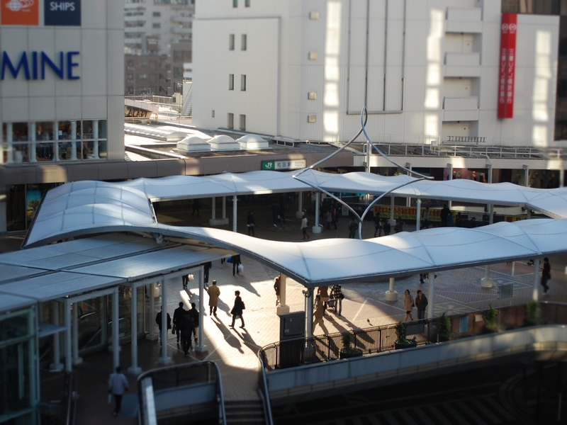 en： ja：JR町田駅北口。 location: Machida caption: JR Machida Station（North Gate）